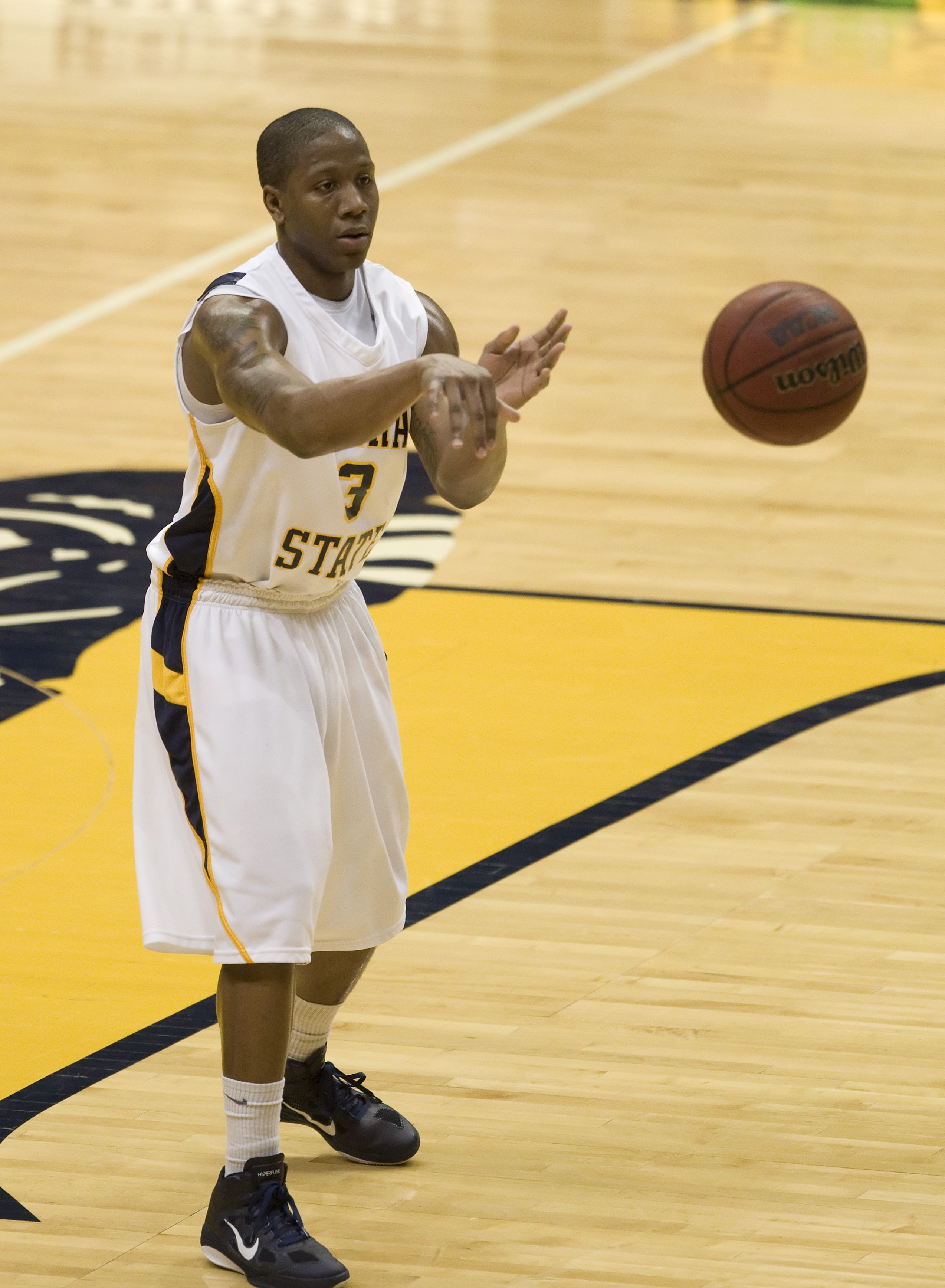 Murray State Men's Basketball vs Morehead State Isaiah Canaan